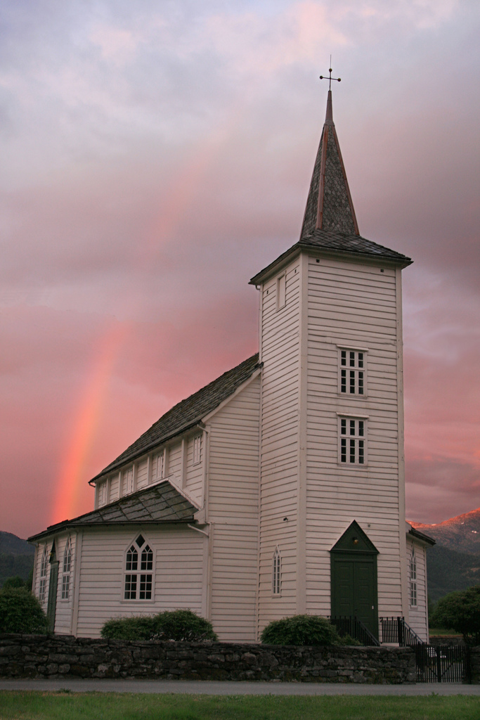 A church in Samnanger, Norway. Edited.